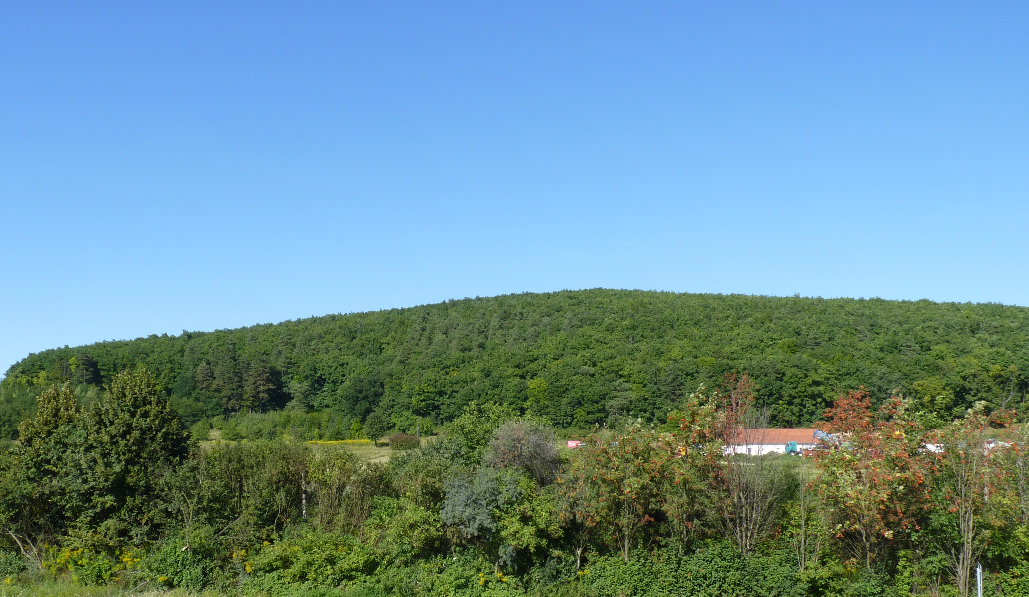 Natural monument Březina, Brno-Country District, South Moravian Region, Czech Republic